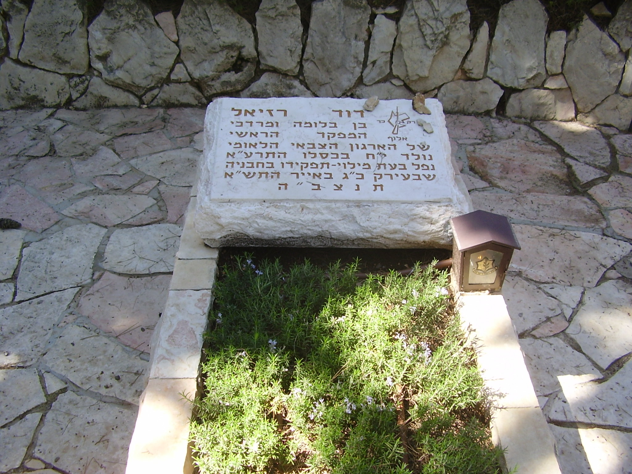 david raziel grave on mount herzl